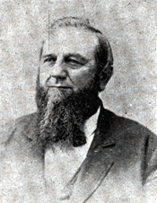 William Lilly, US Representative from Pennsylvania